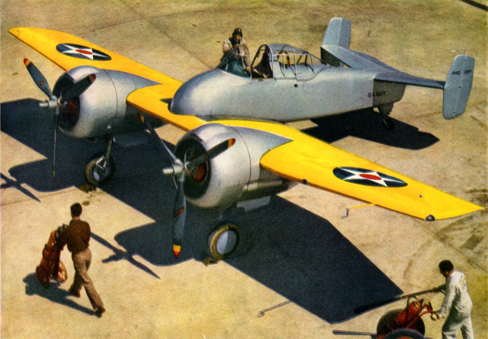 PictionID:41546011 - Title:Ray Wagner Collection Image - Catalog:16_000450 Grumman XF5F-1 1442 - Filename:16_000450 Grumman XF5F-1 1442.tif - - - Image from the Ray Wagner Collection. Ray Wagner was Archivist at the San Diego Air and Space Museum for several years and is an author of several books on aviation --- ---Please Tag these images so that the information can be permanently stored with the digital file.---Repository: San Diego Air and Space Museum